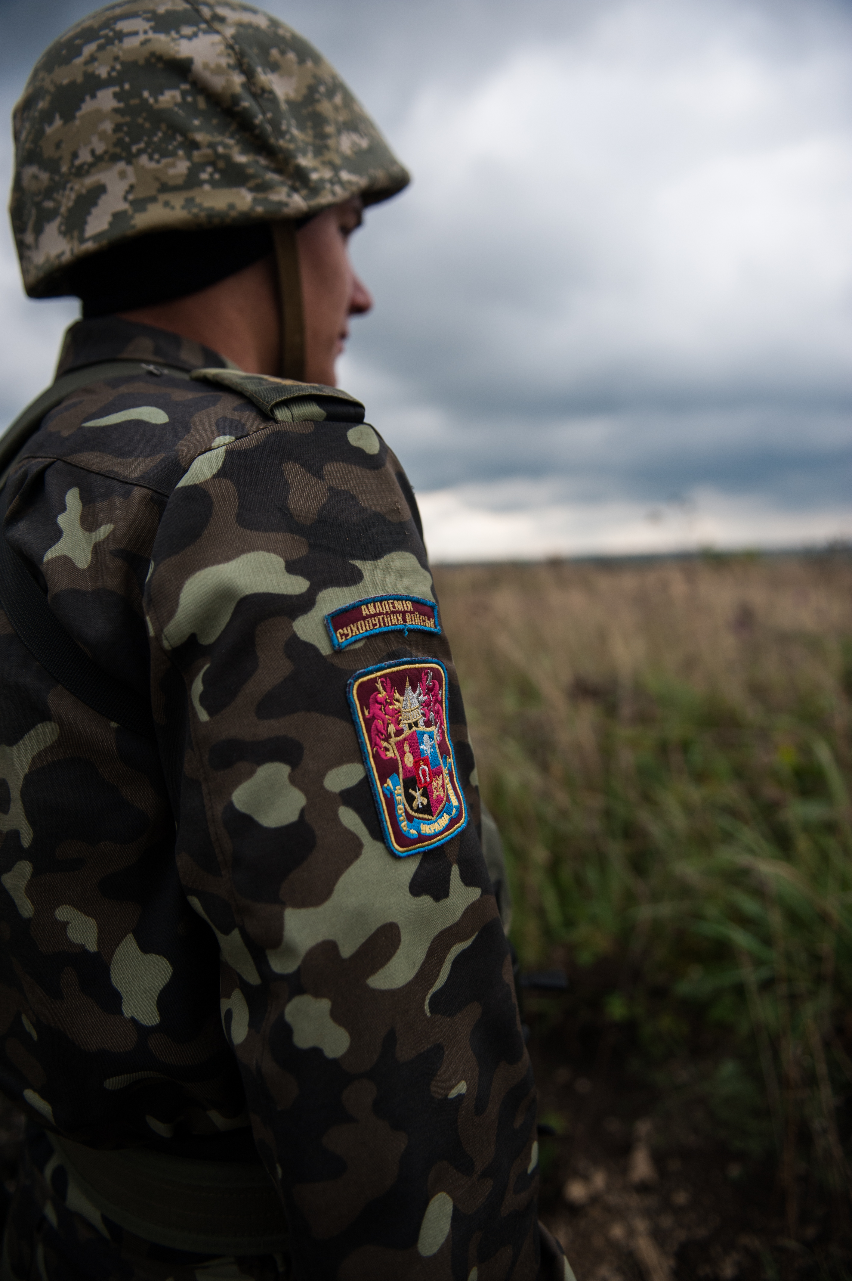 YAVORIV, Ukraine -- A Ukrainian Cadet scans the area for opposing forces during the second day of the field training exercise at Rapid Trident 2014 here, Sept. 23. Rapid Trident is an annual U.S. Army Europe conducted, Ukrainian led multinational exercise designed to enhance interoperability with allied and partner nations while promoting regional stability and security. (U.S. Army photo by Spc. Joshua Leonard)